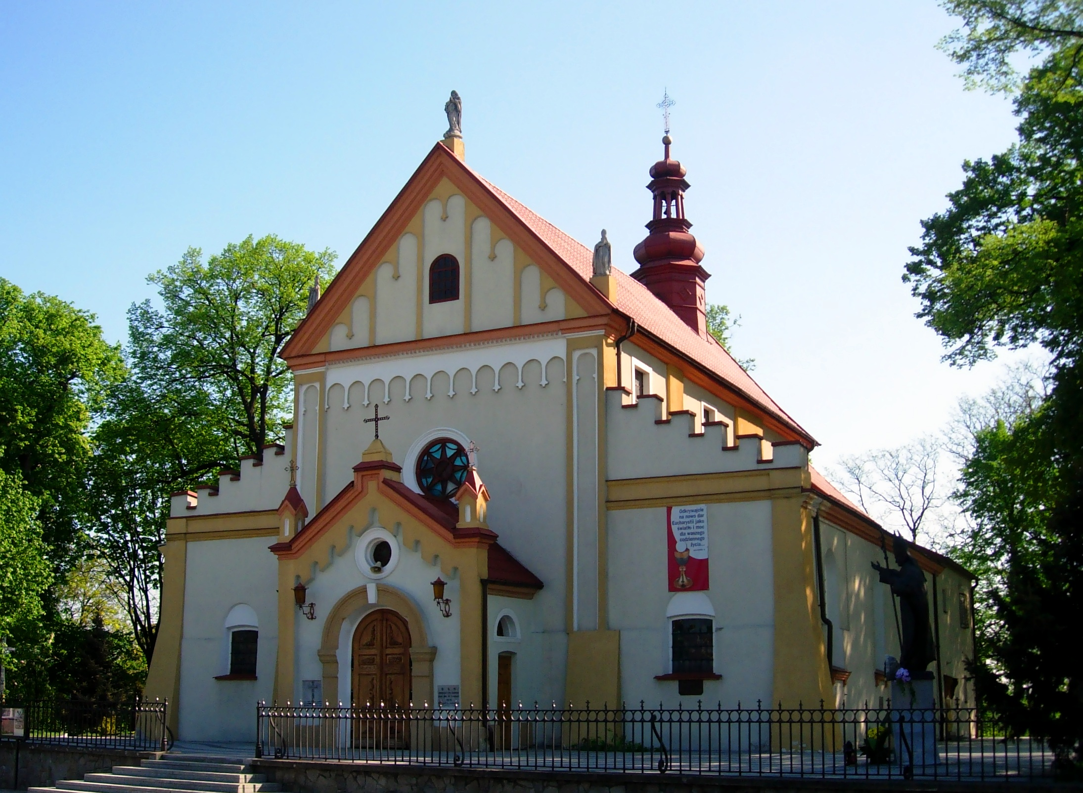 All Saints Church in Nowe Brzesko, Poland